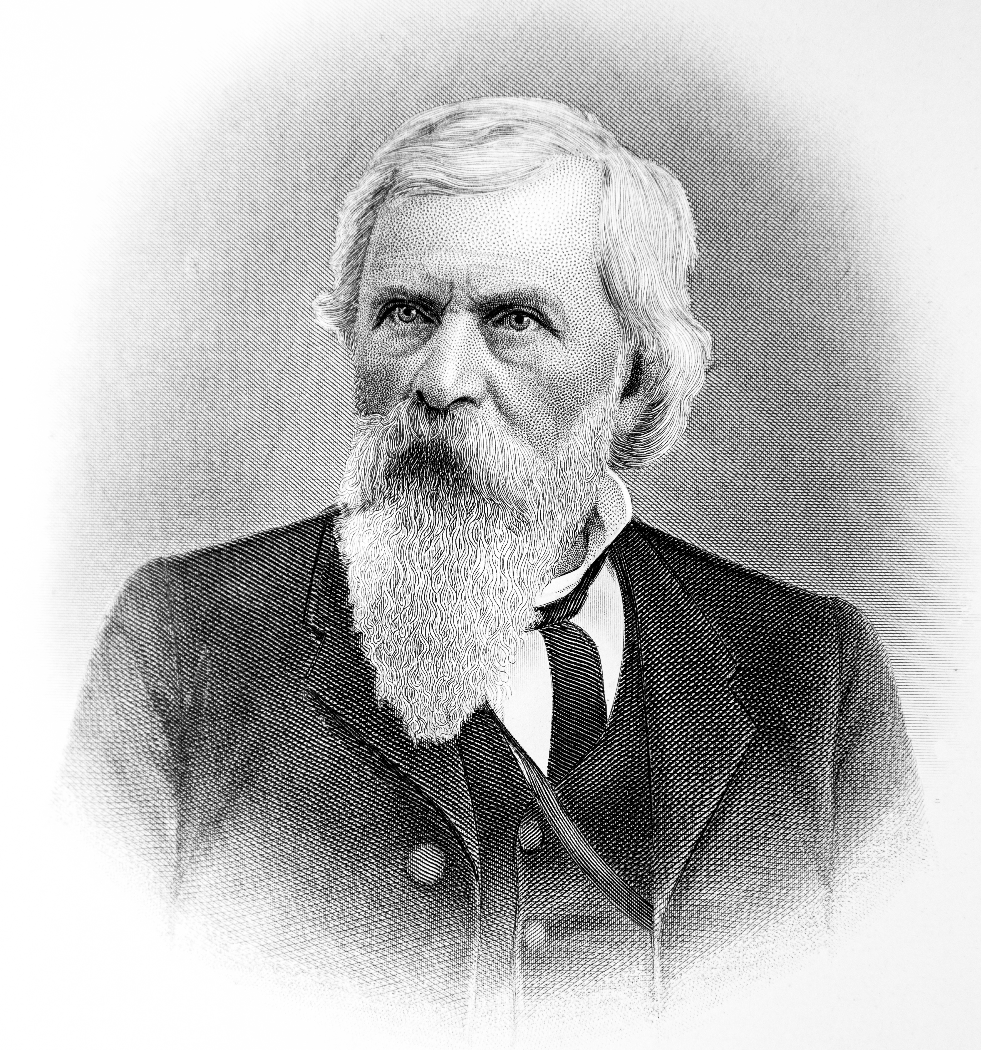 Homer W. Heaton (1811-1899), Vermont politician and lawyer; founded Heaton Hospital in Montpelier, Vermont.